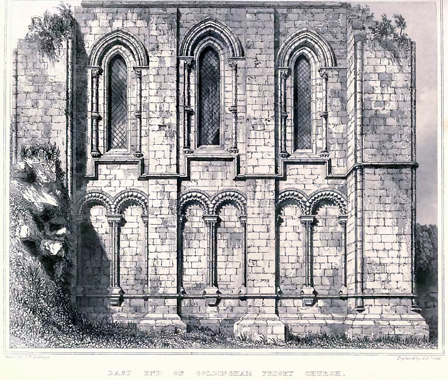 Coldingham Priory, Scotland.